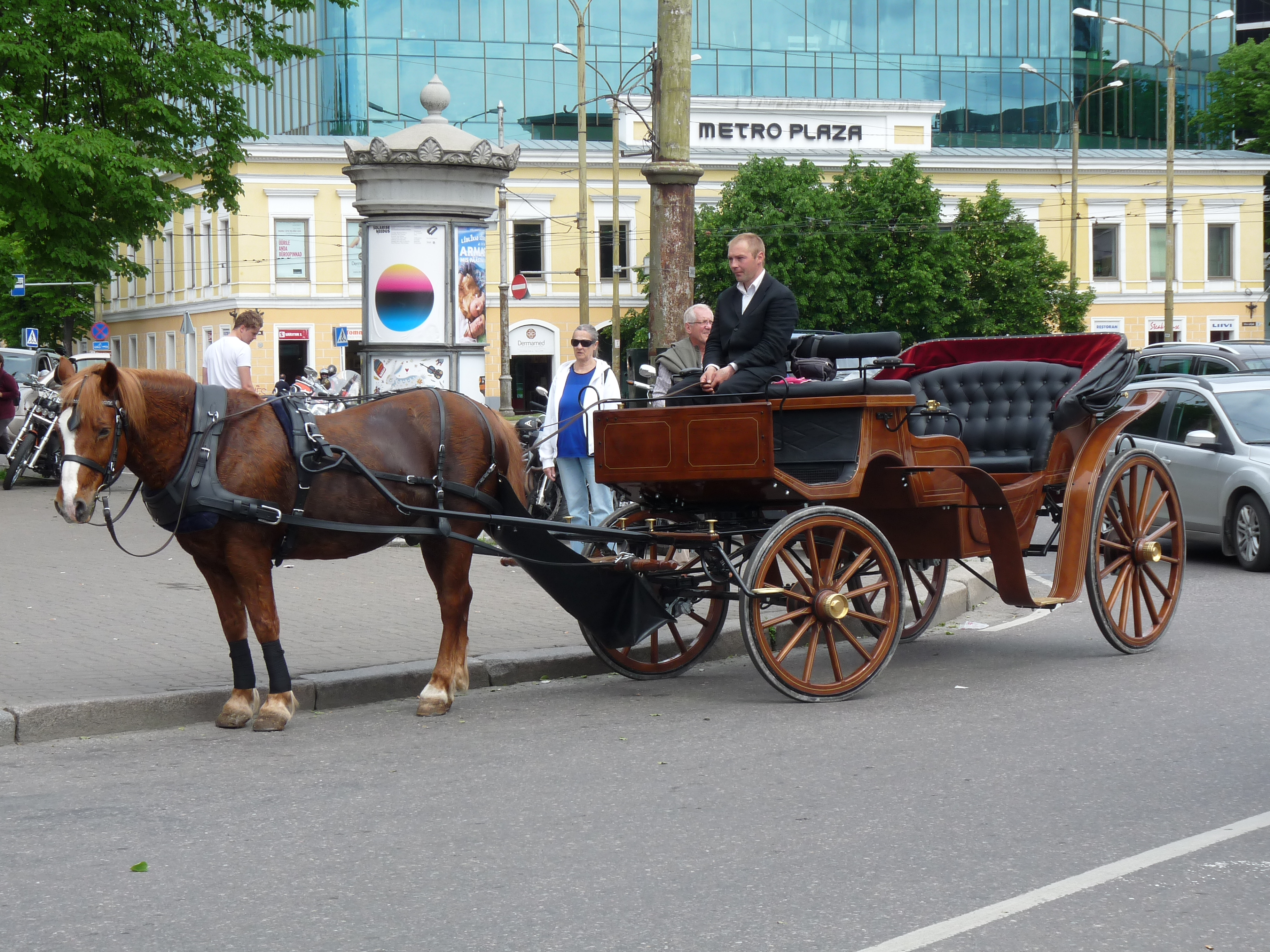 Horse taxi in Tallinn, Estonia